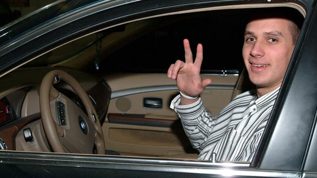 Слика:Sasapavlovicbmwnd4.jpg